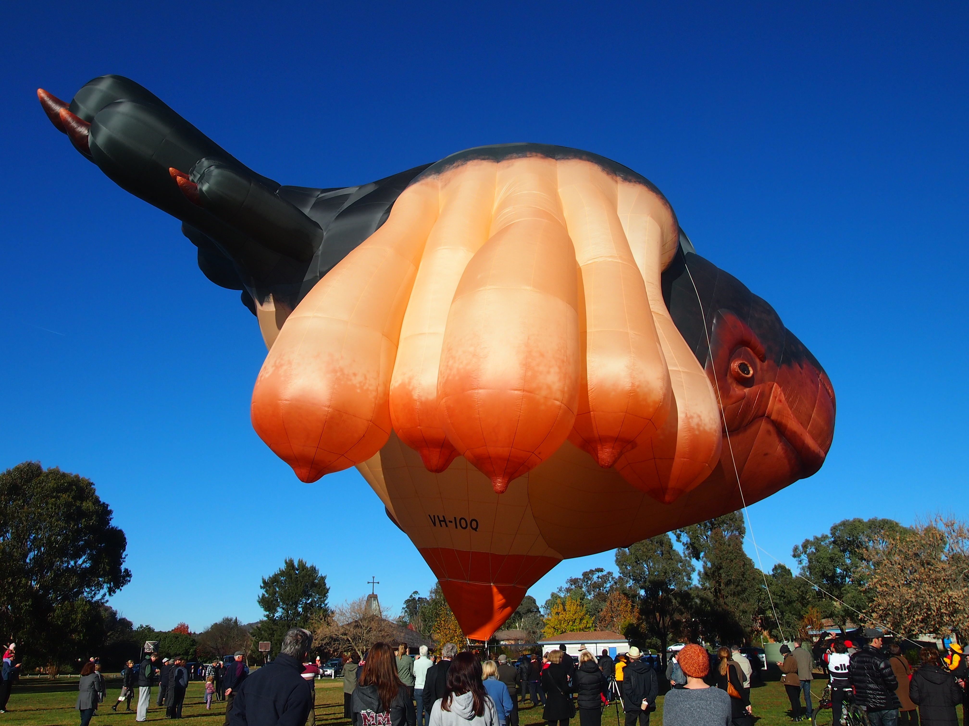 The Skywhale shortly before take off on its second flight over Canberra in May 2013